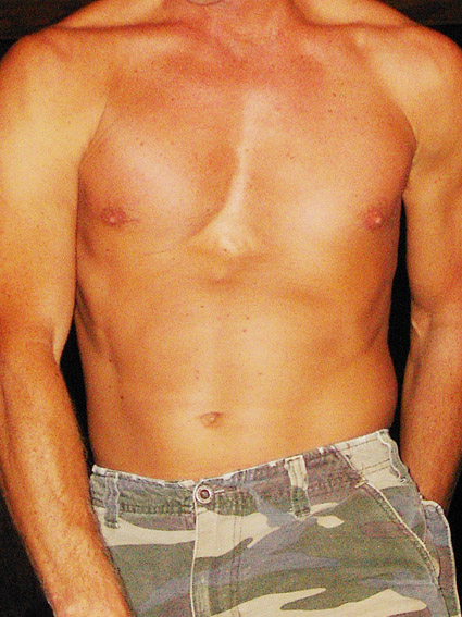 A male torso.